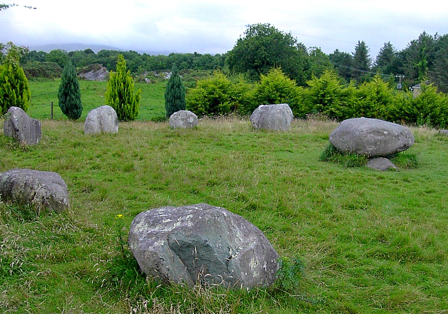 IRL 2004 Kenmare Druid Circle